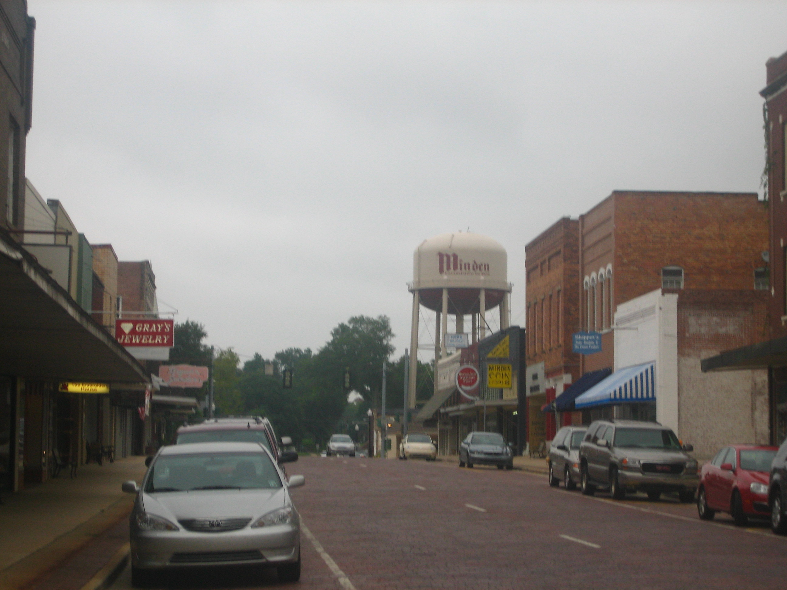 I took photo on Aug. 11, 2008.Billy Hathorn (talk) 21:00, 14 August 2008 (UTC)